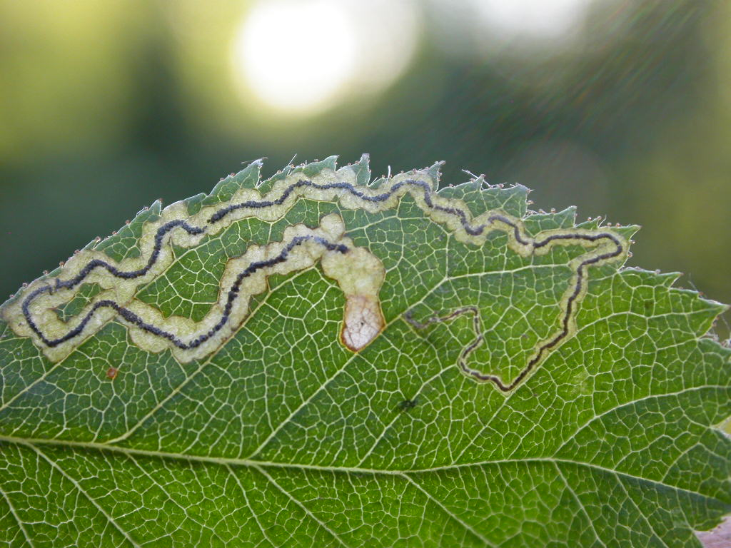 Stigmella splendidissimella, mine, Copenhagen, Denmark, 1 August 2005